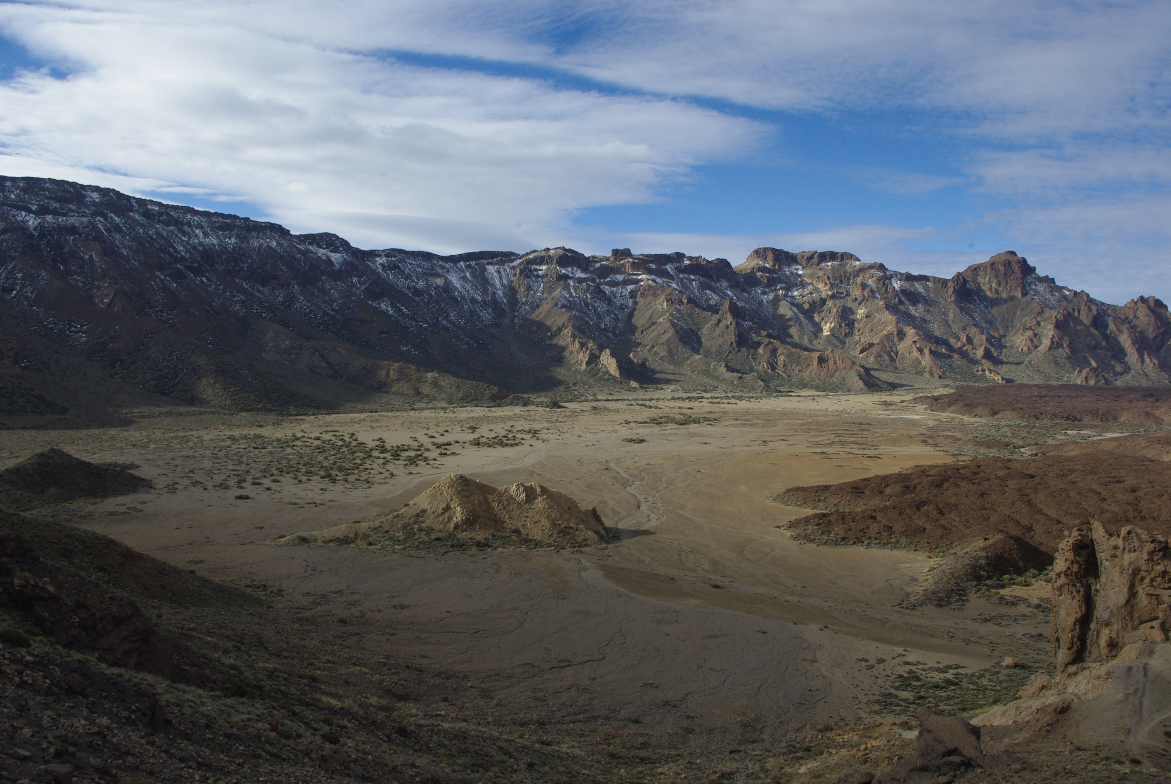 This is a photography of a Site of Community Importance in Spain with the ID: ES7020043. Natura2000 entry, EEA entry